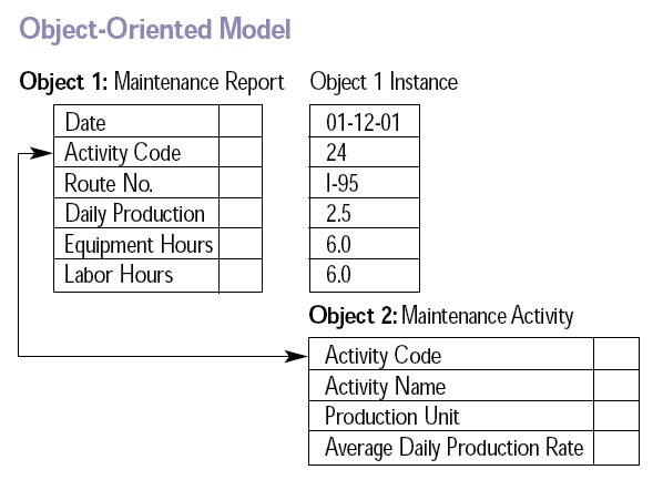 Object-Oriented Model Defines a data object as containing code (sequences of computer instructions) and data (information that the instructions operate on). Traditionally, code and data have been kept apart. In an object-oriented data model, the code and data are merged into a single indivisible thing—an object.